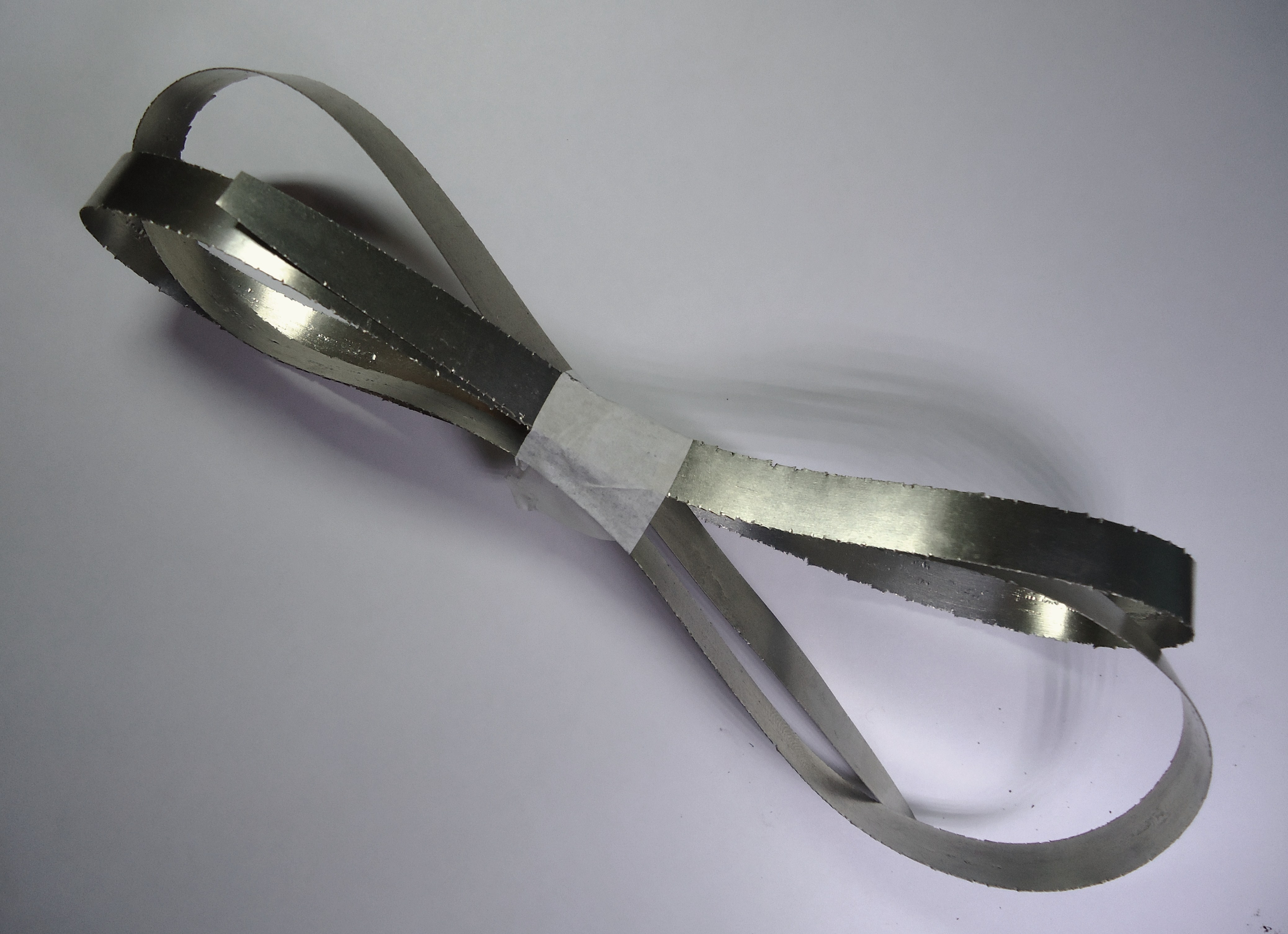 Silver solder strip (30 grams/108 cm-long) composed of silver (50%) and brass (50%). Mauro Cateb, Brazilian jeweler and silversmith.